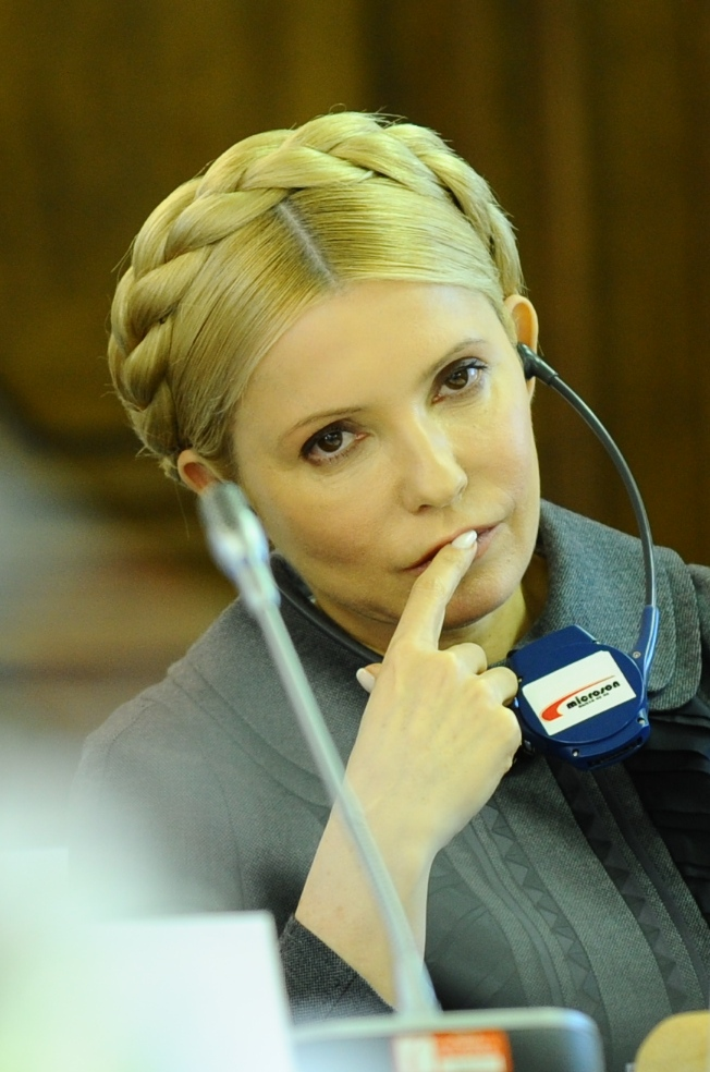 Yulia Tymoshenko (detail)